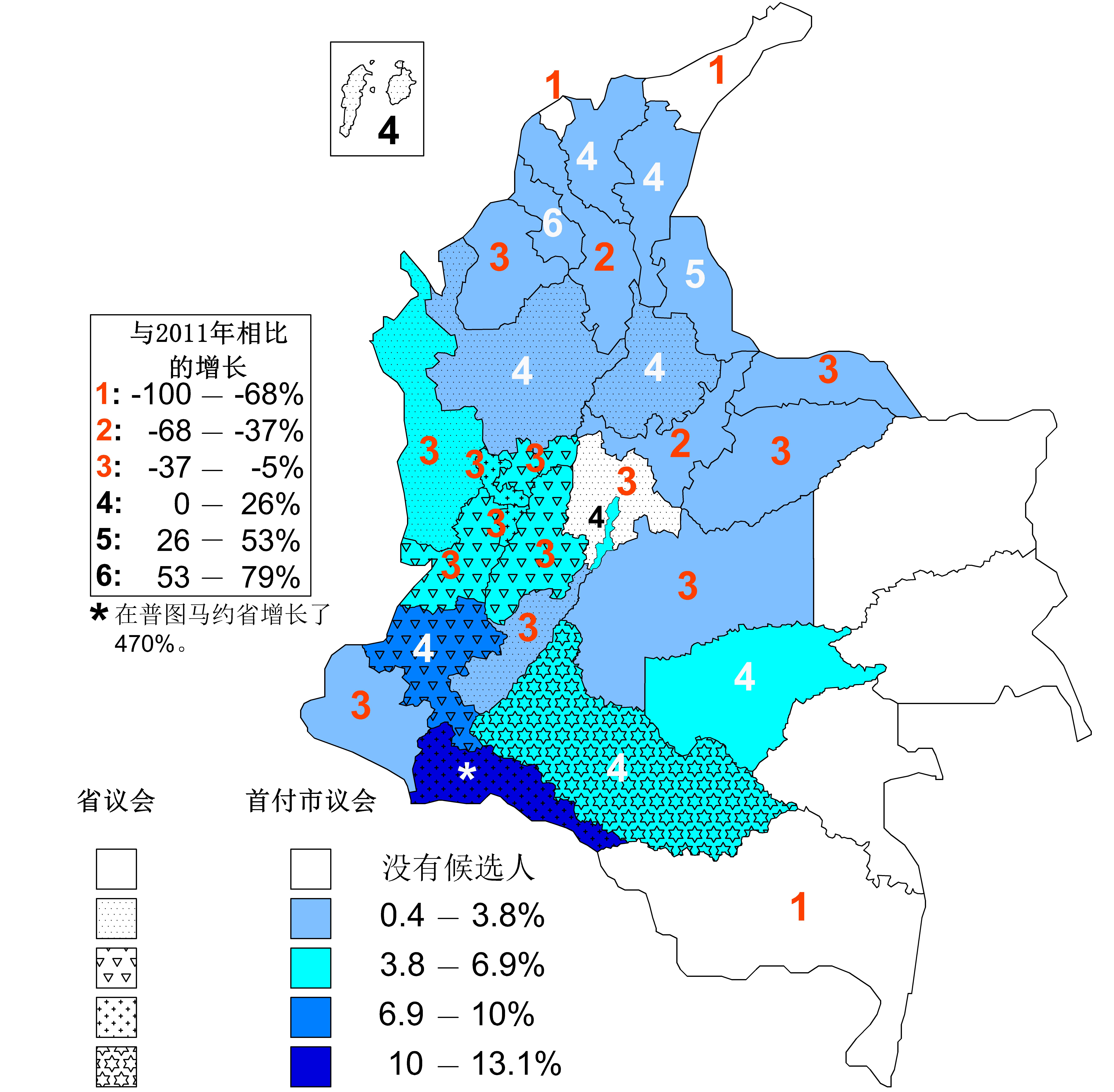 This map summarizes the preliminary results obtained by the MIRA Party in the of the 2015 regional and municipal elections of local authorities of Colombia. This is the map version for Wikipedia in Chinese. This file replaces MIRA党获得的2015年行政区划和市政当局选举结果.png.